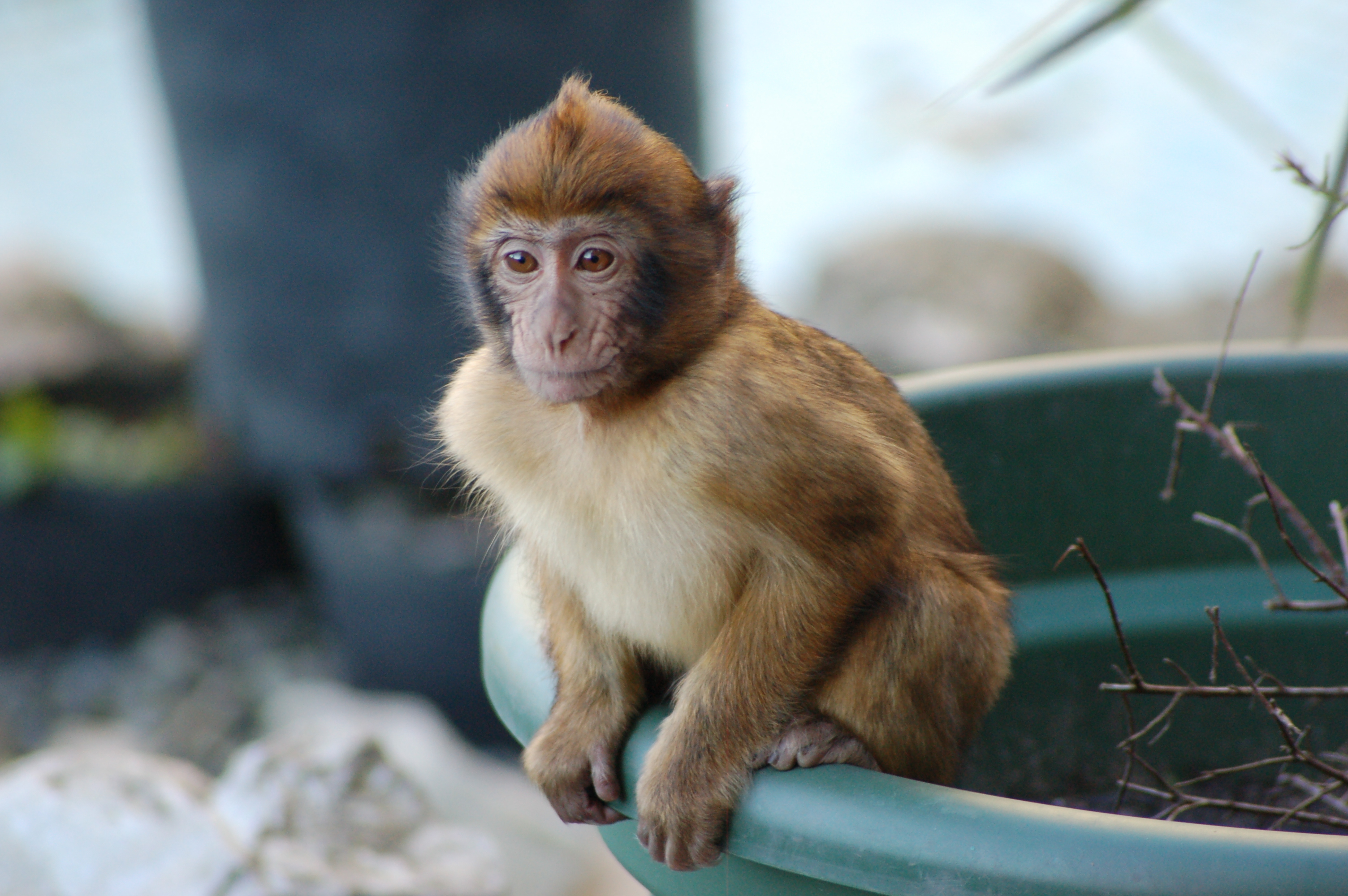 Young Barbary Ape sitting on a Plant Pot in Gibraltar ( from the family Guillen)